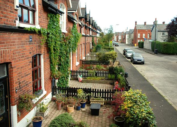 Rathcoole cottages, Belfast A terrace, of very attractive, well maintained and sensitively-modernised houses, at the southern end of Great Northern Street. They seem to have been built around 1908/09.